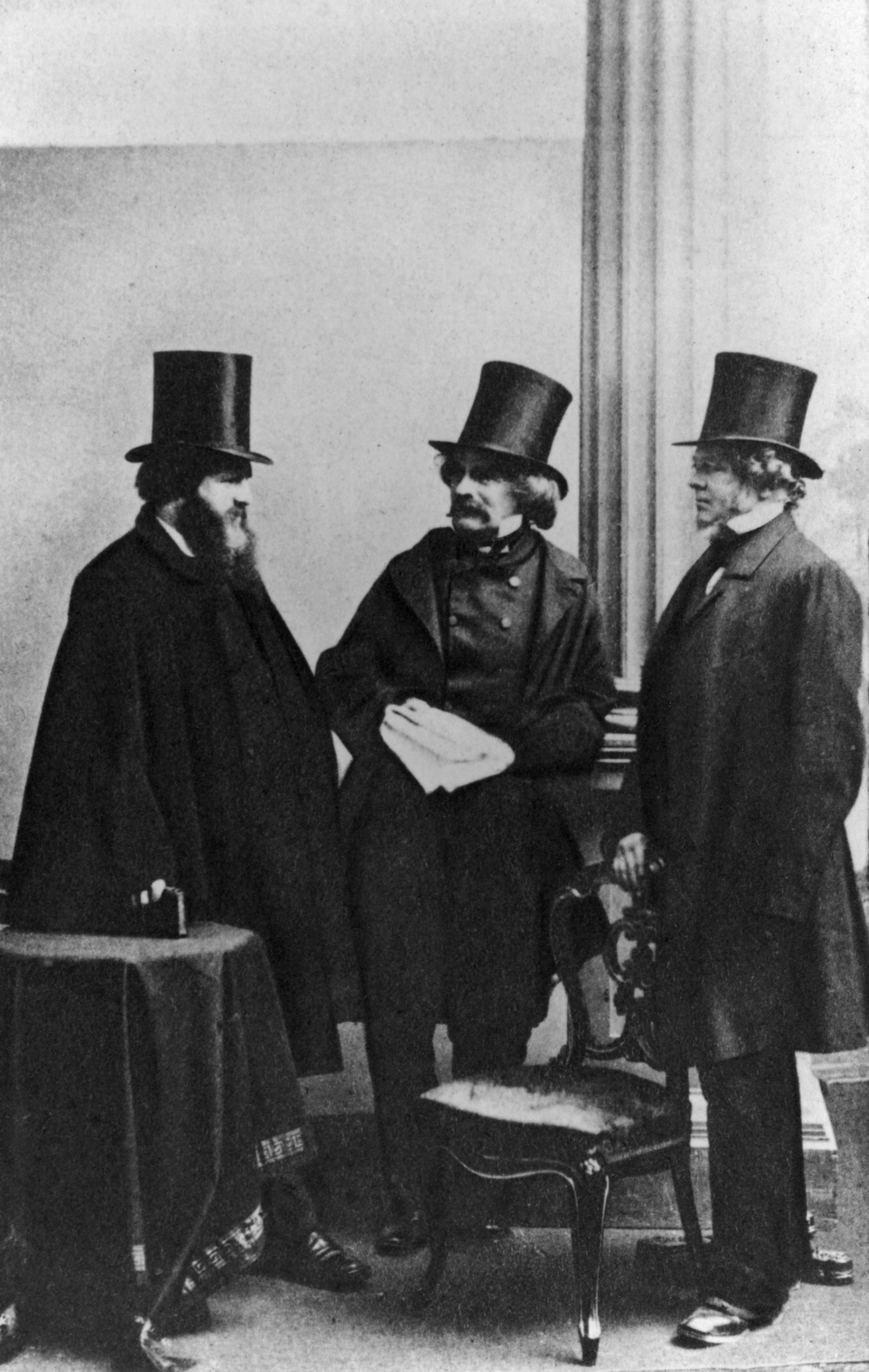 James Thomas Fields; Nathaniel Hawthorne; William Davis Ticknor, by unknown artist. All images in this batch are listed as "unknown author" by the NPG, who is diligent in researching authors, and was donated to the NPG before 1939 according to their website.